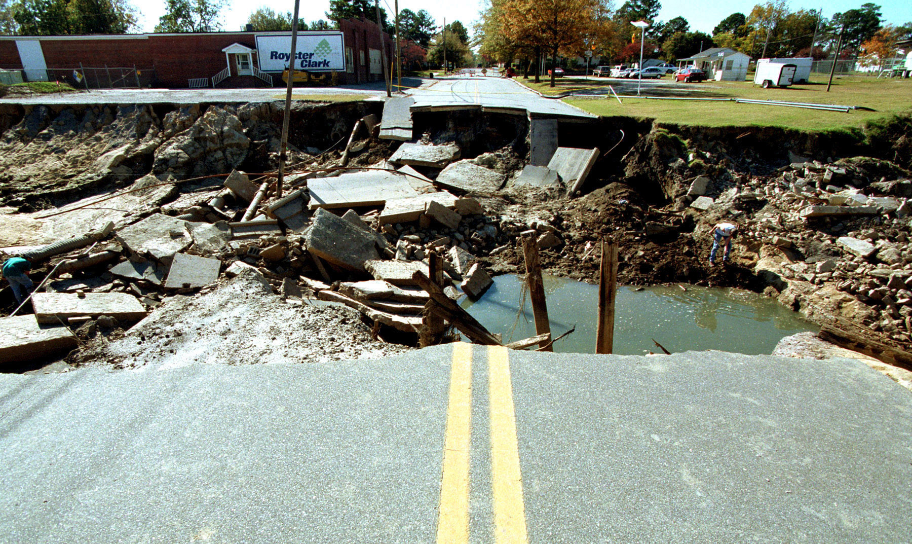 Tarboro, NC, November 8, 1999 -- The St. James Street bridge is still washed out from the floods of Hurricane Floyd, leaving this main artery unusable. The waterway is a tributary of the Tar River. Photo by DAVE GATLEY/ FEMA News Photo